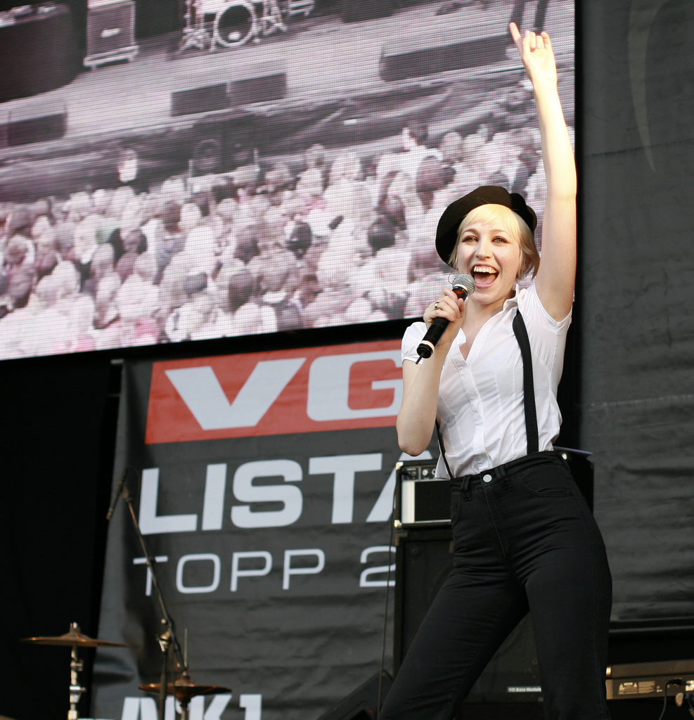 Norwegian pop singer Margaret Berger performing live.